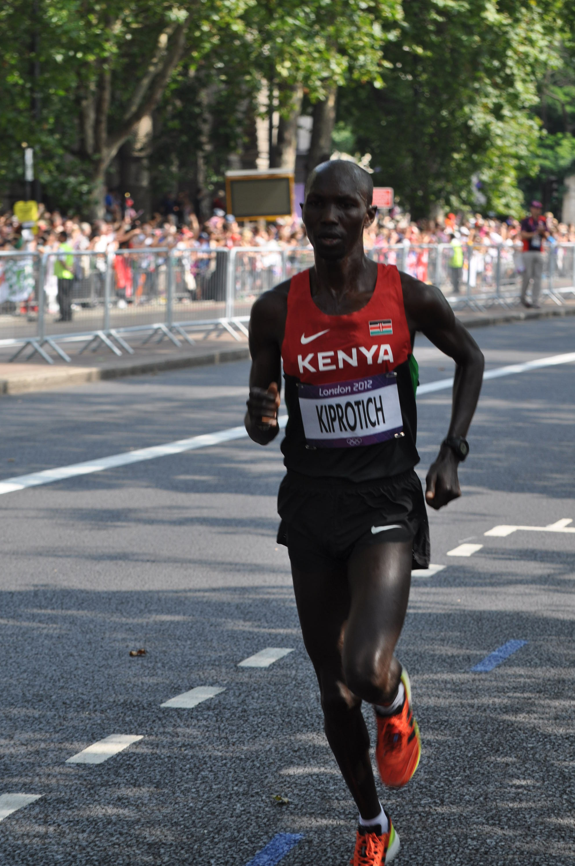 The men's marathon of the 2012 Summer Olympics in London, UK took place on an Olympic marathon street course on Sunday 12th August 2012 at 11:00. This was the final day of the 30th Olympic Games. The London 2012 marathon course is the standard Olympic distance of 26 miles 385 yards and consists of one short lap of approx 2.2 miles followed by three longer laps of 8 miles. The course began on The Mall and travelled past several of the most famous London landmarks. The start/finish line was near the Victoria Memorial. These photographs were taken at the Victoria Embankment. This featured several times on the looped course. The approximate location from the photographs is shown in the Google StreetView Link below. Stephen Kiprotich won in 2 hours, 8 minutes, 1 second as he pulled away from the Kenyan duo of Abel Kirui and Wilson Kiprotich Kipsang. These photographs are unofficial photographs. They are not endorsed by London 2012. There are not commercially available. They are available for use under a Creative Commons License. Please link back to the photograph on my Flickr account if you use the image.